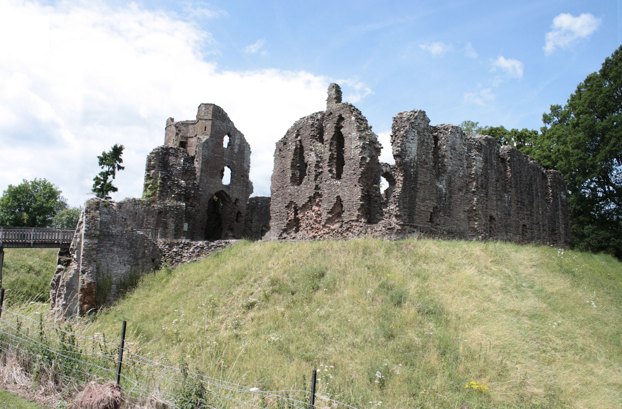 Grosmont Castle from the east. The ruined rectangular builing on the right is the early 13th-century Hall Block and to the left is the gatehouse.